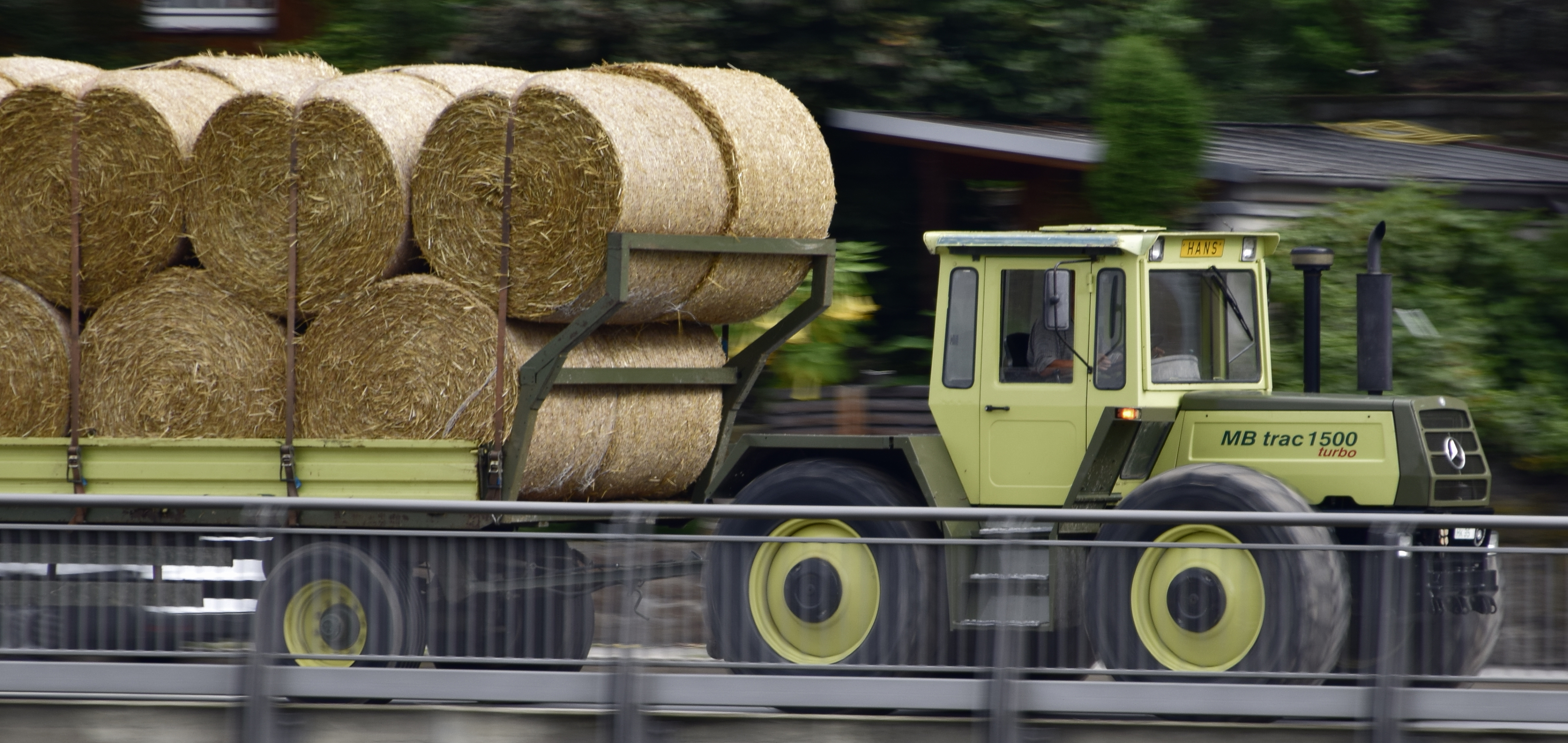 A MB-Trac 1500 turbo transporting hay bales on a special trailer.